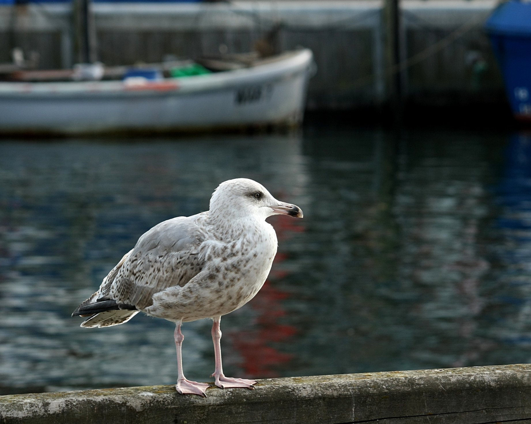 Herring Gull (immature)